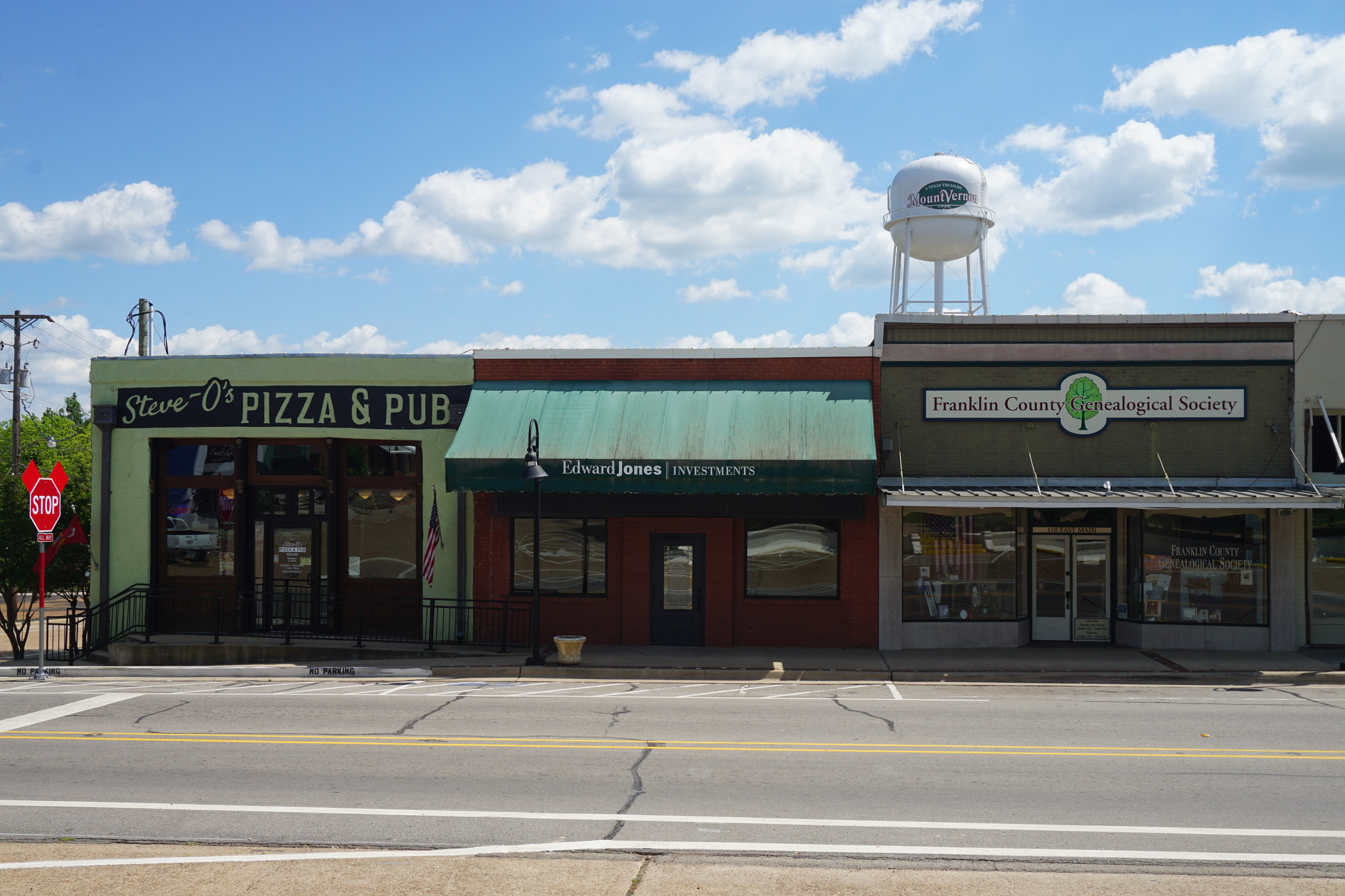 Steve-O's Pizza & Pub, Edward Jones Investments, and the Franklin County Genealogical Society in Mount Vernon, Texas (United States).